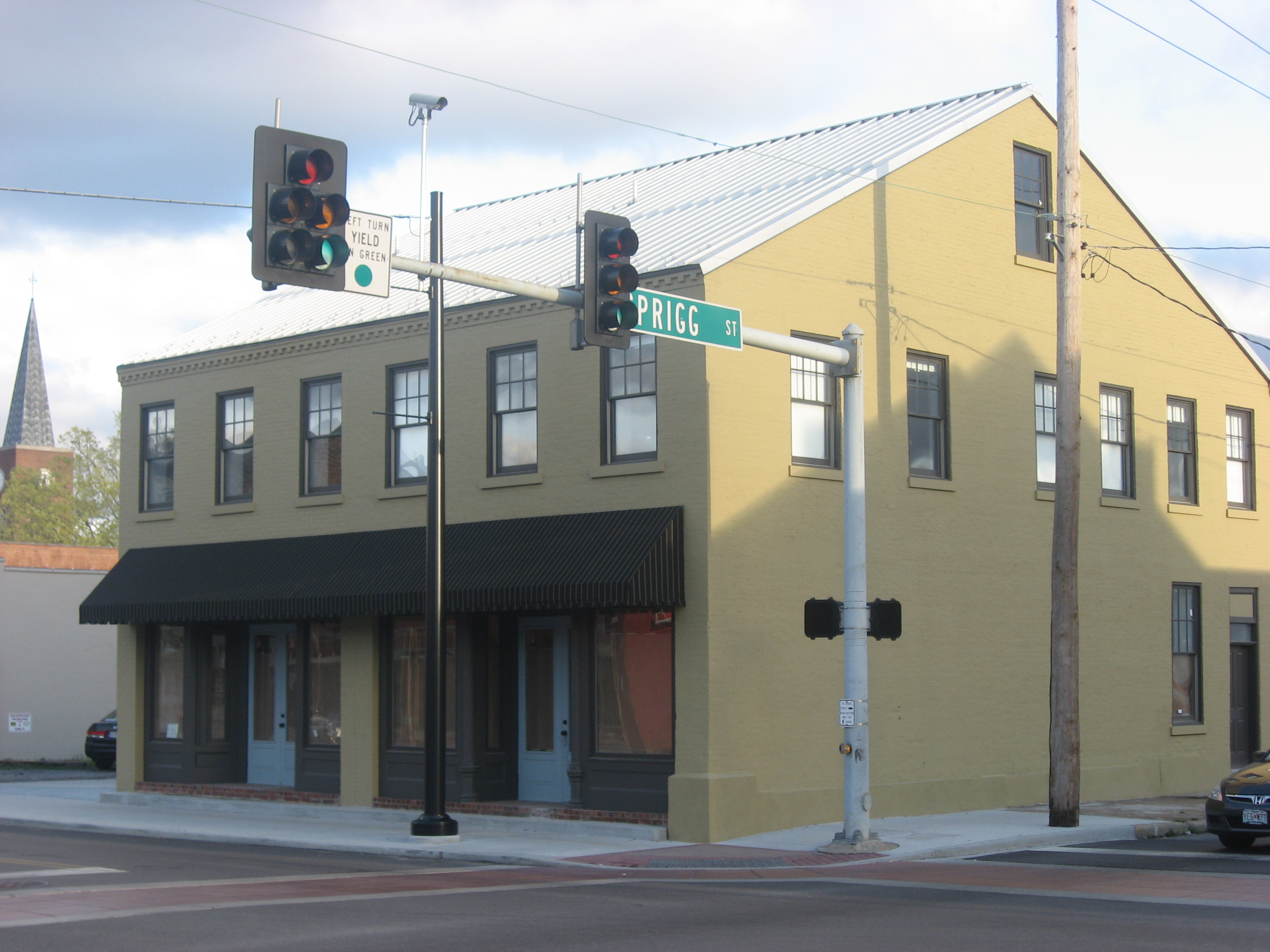 Front and western side of the Julius Vasterling Building, located at 633-637 Broadway Street in Cape Girardeau, Missouri, United States. Built in 1883, it is listed on the National Register of Historic Places.